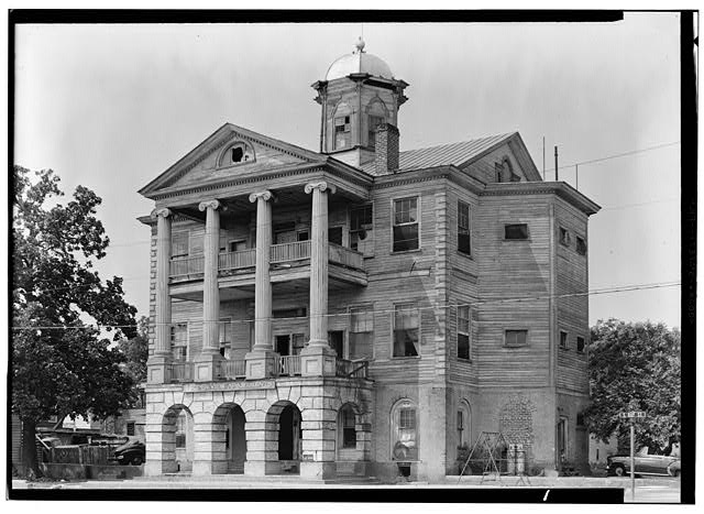 The Faber-Ward House was photographed on May 17, 1958, before its restoration by the Historic Charleston Foundation.